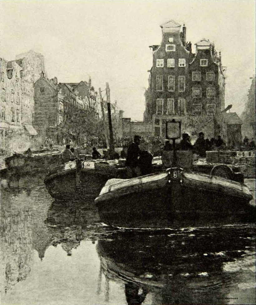 Rotterdamse haven